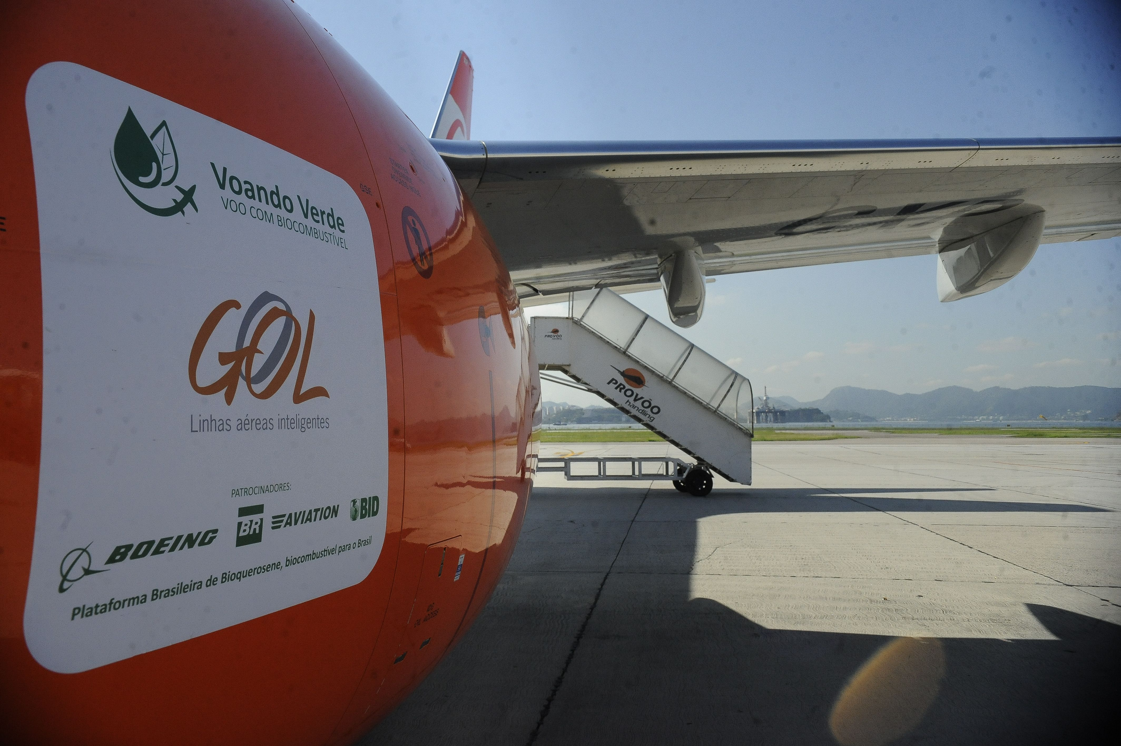 Photo by Tânia Rêgo/Agência Brasil CCBY3.0